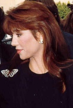 Victoria Principal on the red carpet at the 39th Annual Emmy Awards 9/20/87